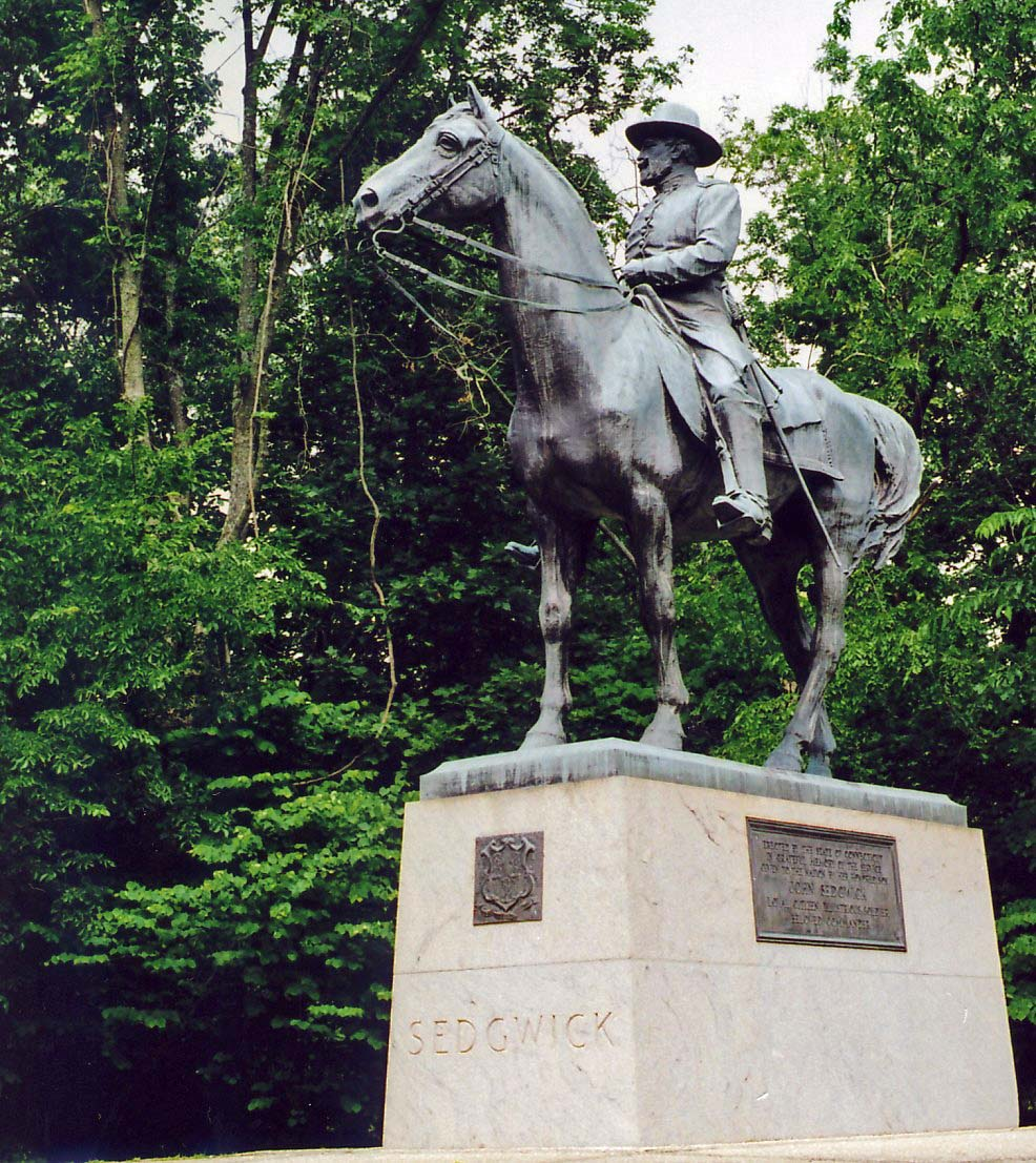 Equestrian statue of General John Sedgwick at Gettysburg battlefield by HK Bush-Brown (1913)